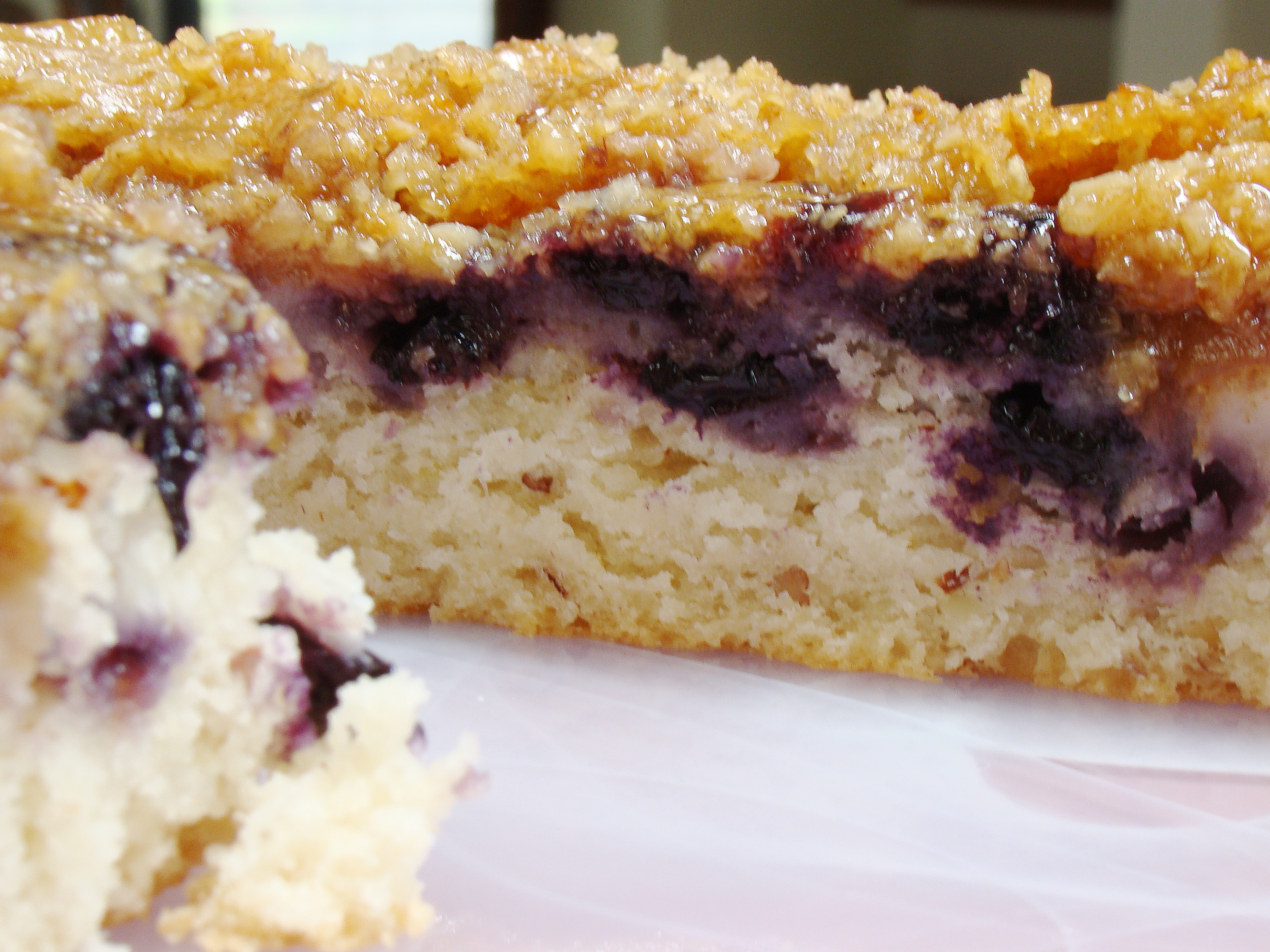 Vegan Blueberry Fig Crumble Coffee Cake